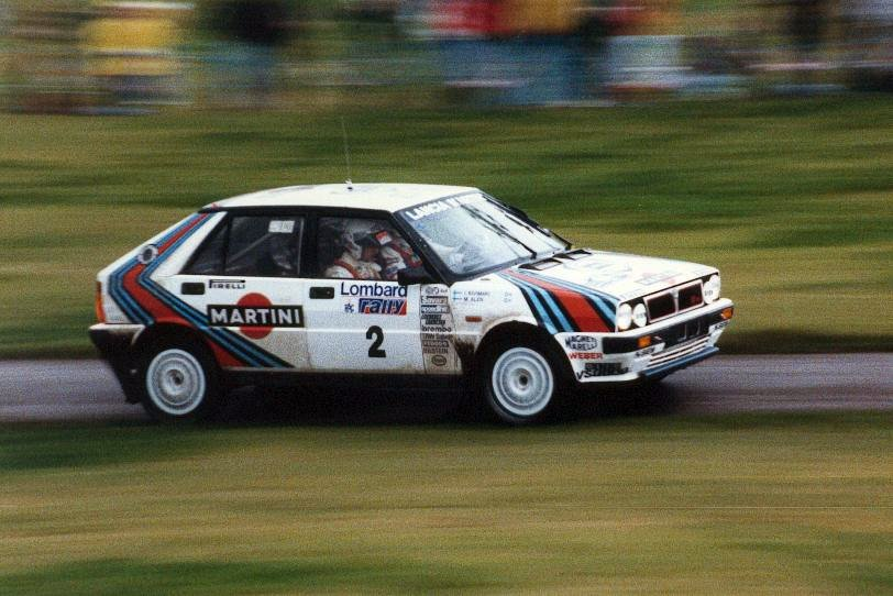 Markku Alén driving his Lancia Delta HF 4WD at the 1987 Lombard RAC Rally.